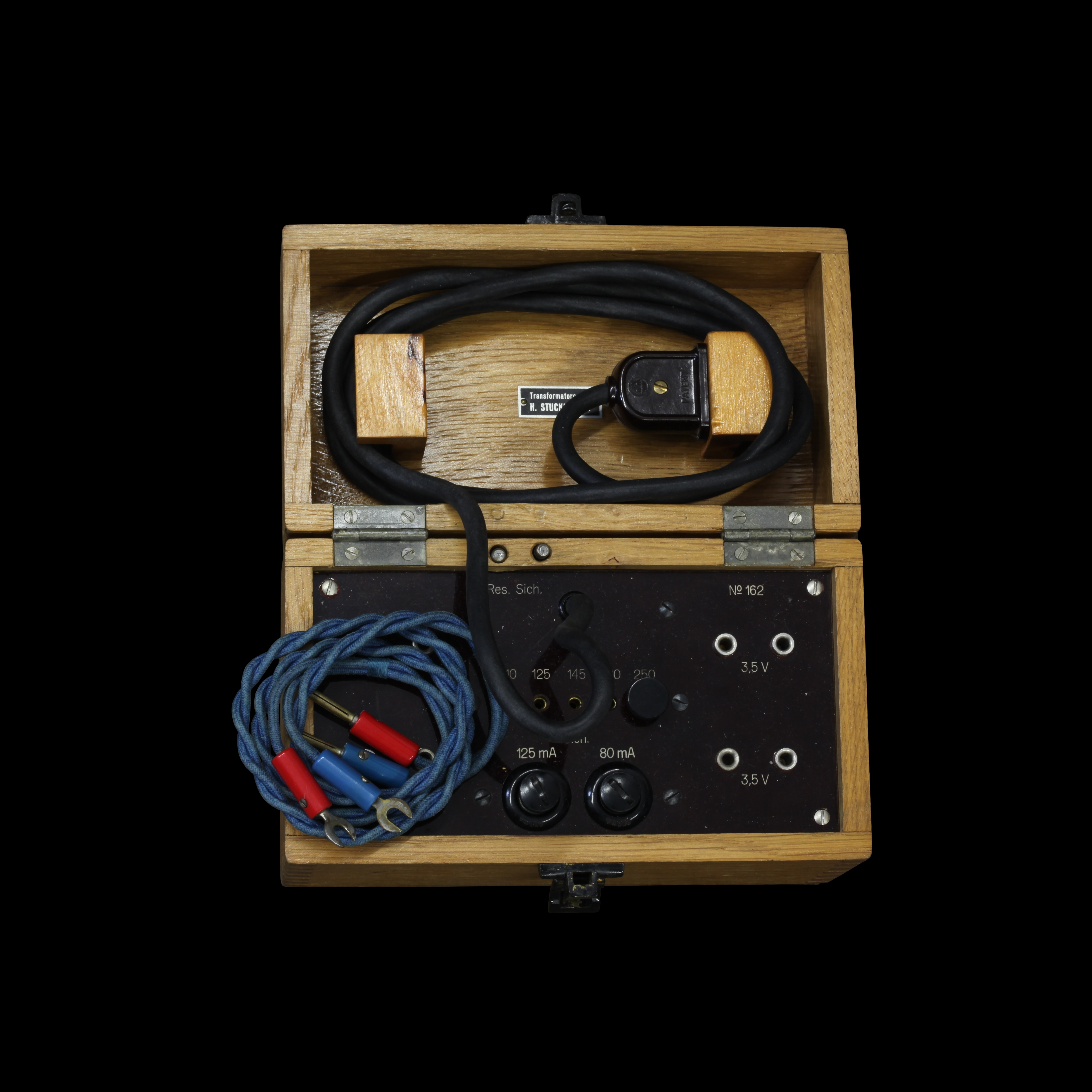 Enigma-K machine of the Swiss Army. Cryptography collection of the Swiss Army headquarters The making of this document was supported by Wikimedia CH.(Submit your project!) For all the files concerned, please see the category Supported by Wikimedia CH.